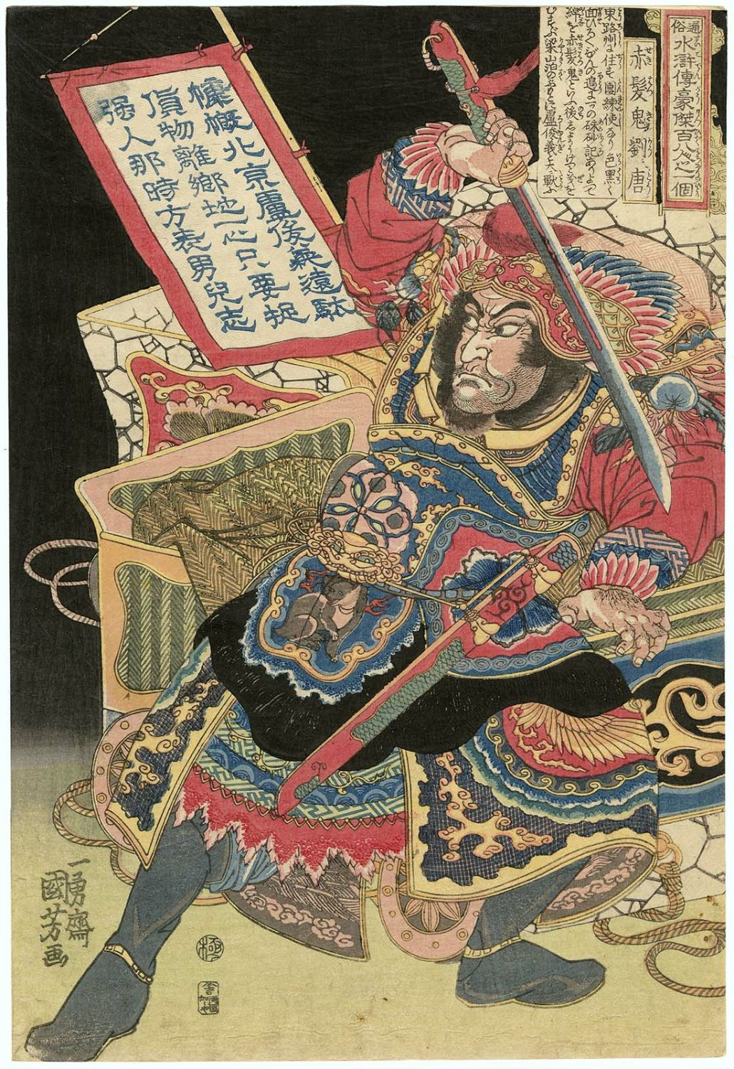 Liu Tang (劉唐) with banner and sword